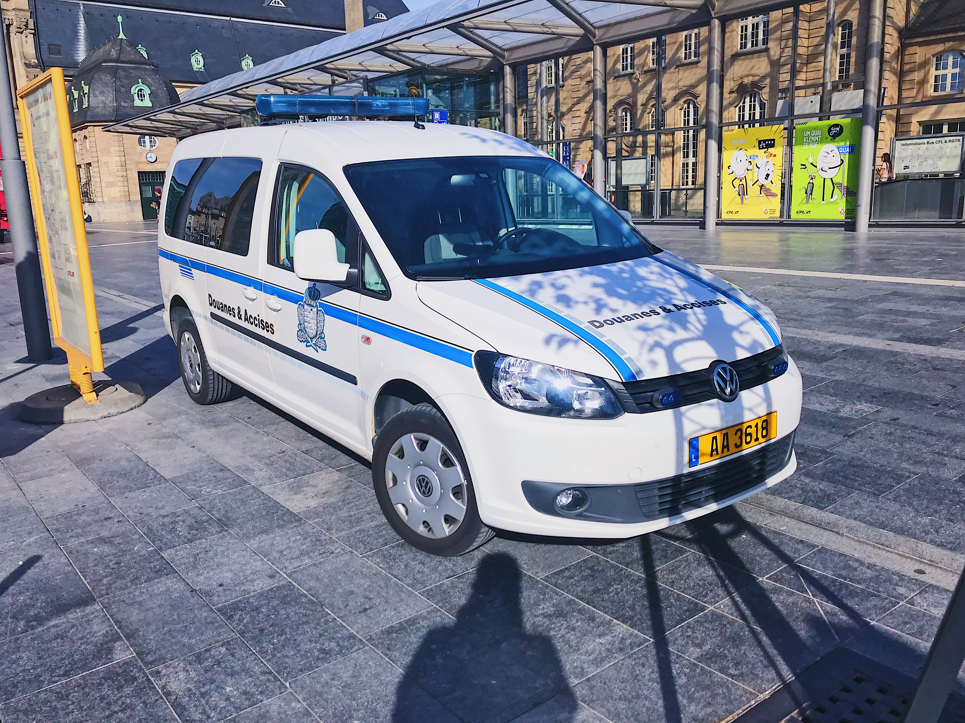 Luxembourg Cuatoms Office patrol car (VW Caddy) in Luxembourg-City (Train central station), Luxembourg (L)